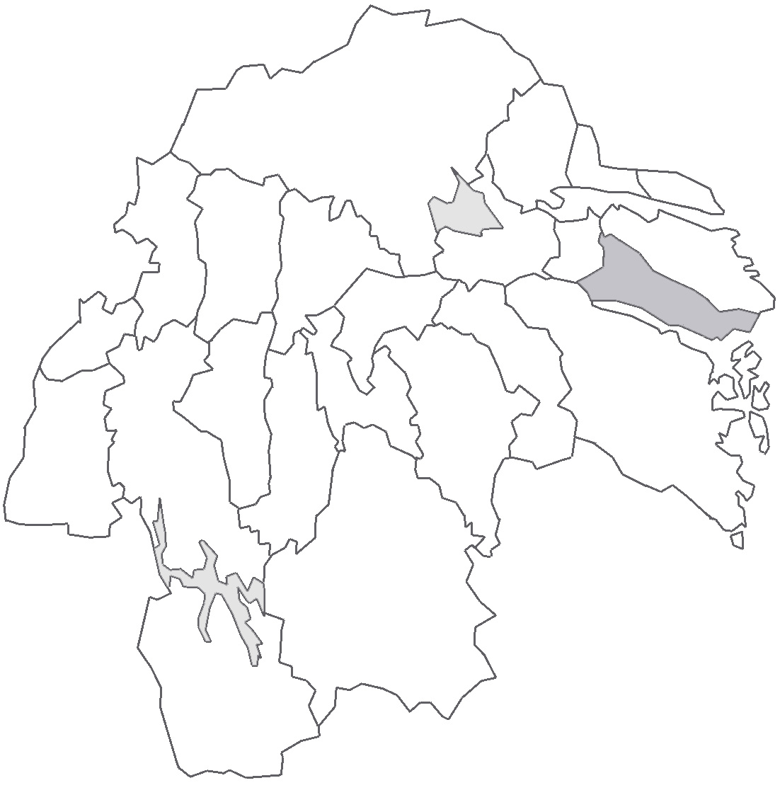 Map describing the location of Björkekind Hundred in Östergötland County.